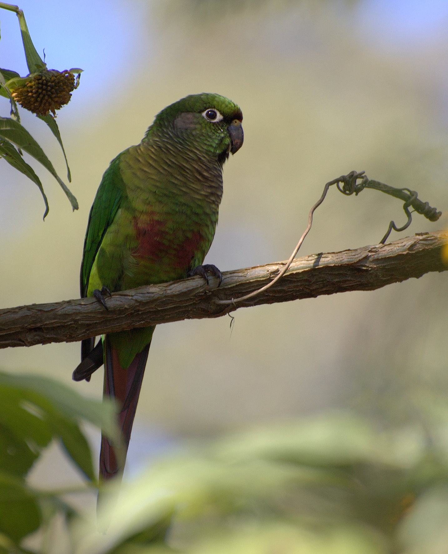 Maroon-bellied Conure (Pyrrhura frontalis) - Horto Florestal de São Paulo.